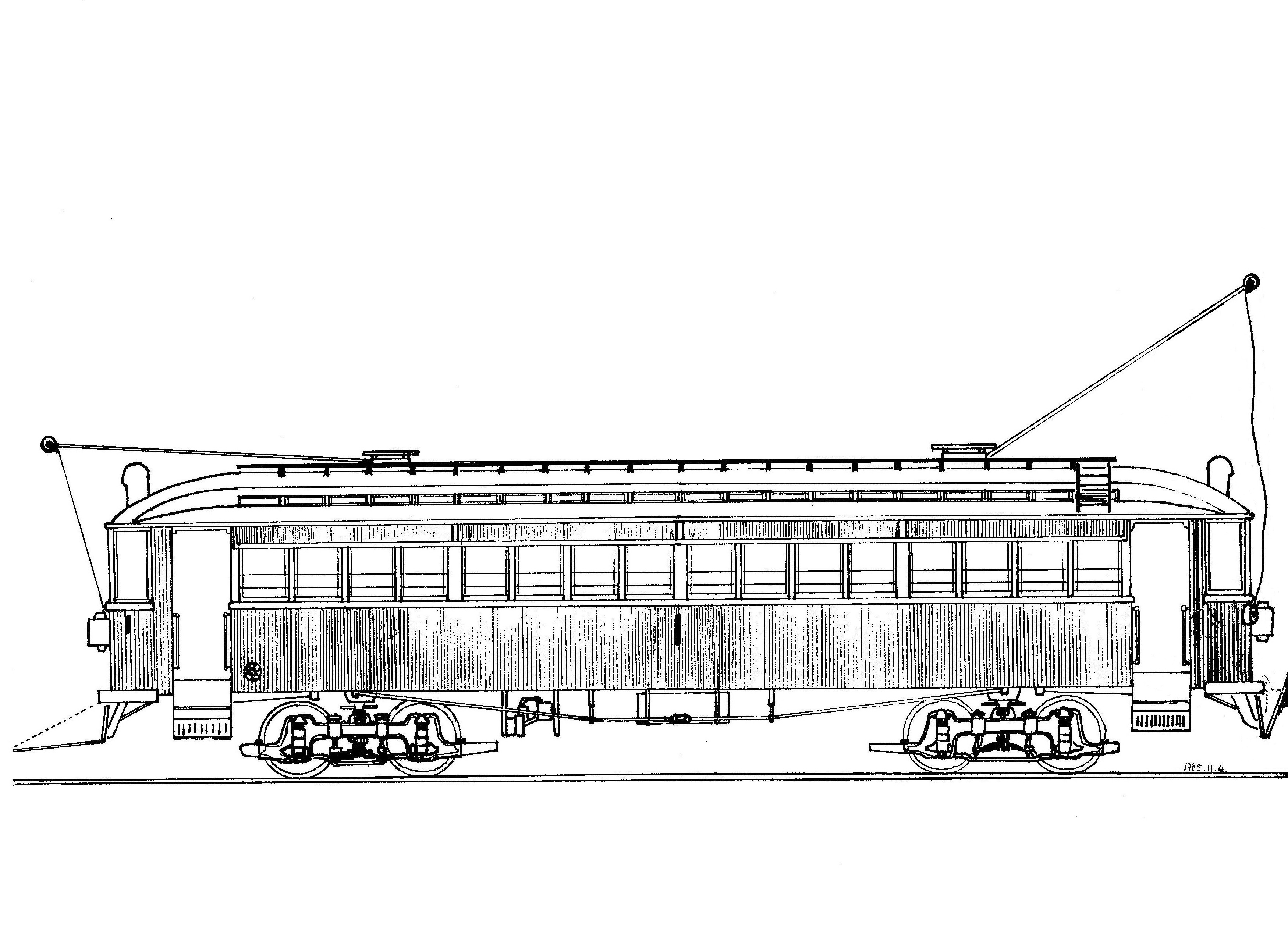 Side view drawing of Keihin No.1